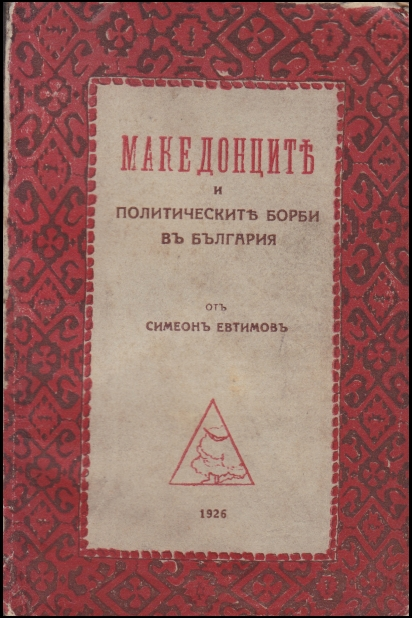 The Macedonians and the Political Struggles in Bulgaria